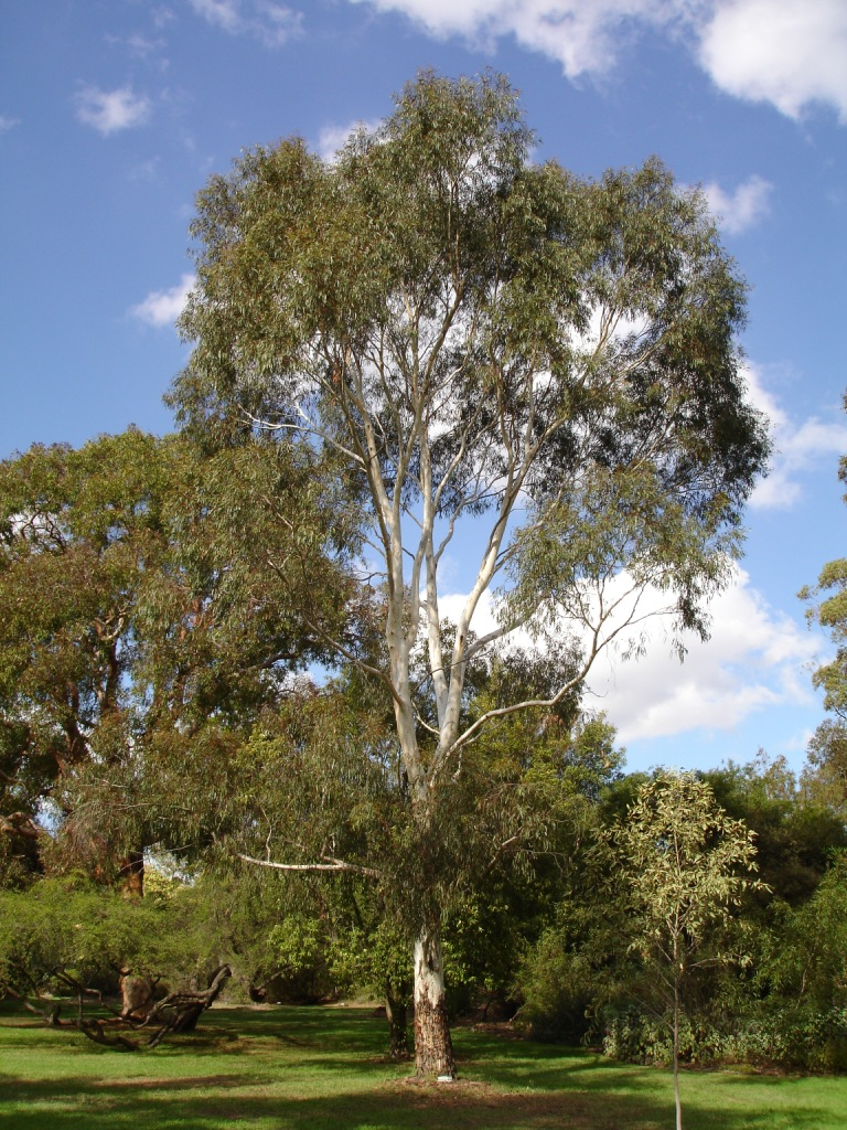 Photographed at Maranoa Gardens, Melbourne, Victoria, Australia by HelloMojo 09:01, 6 April 2007 (UTC)